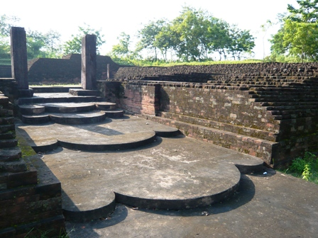 Entrance to one of the monasteries at Lalitgiri.